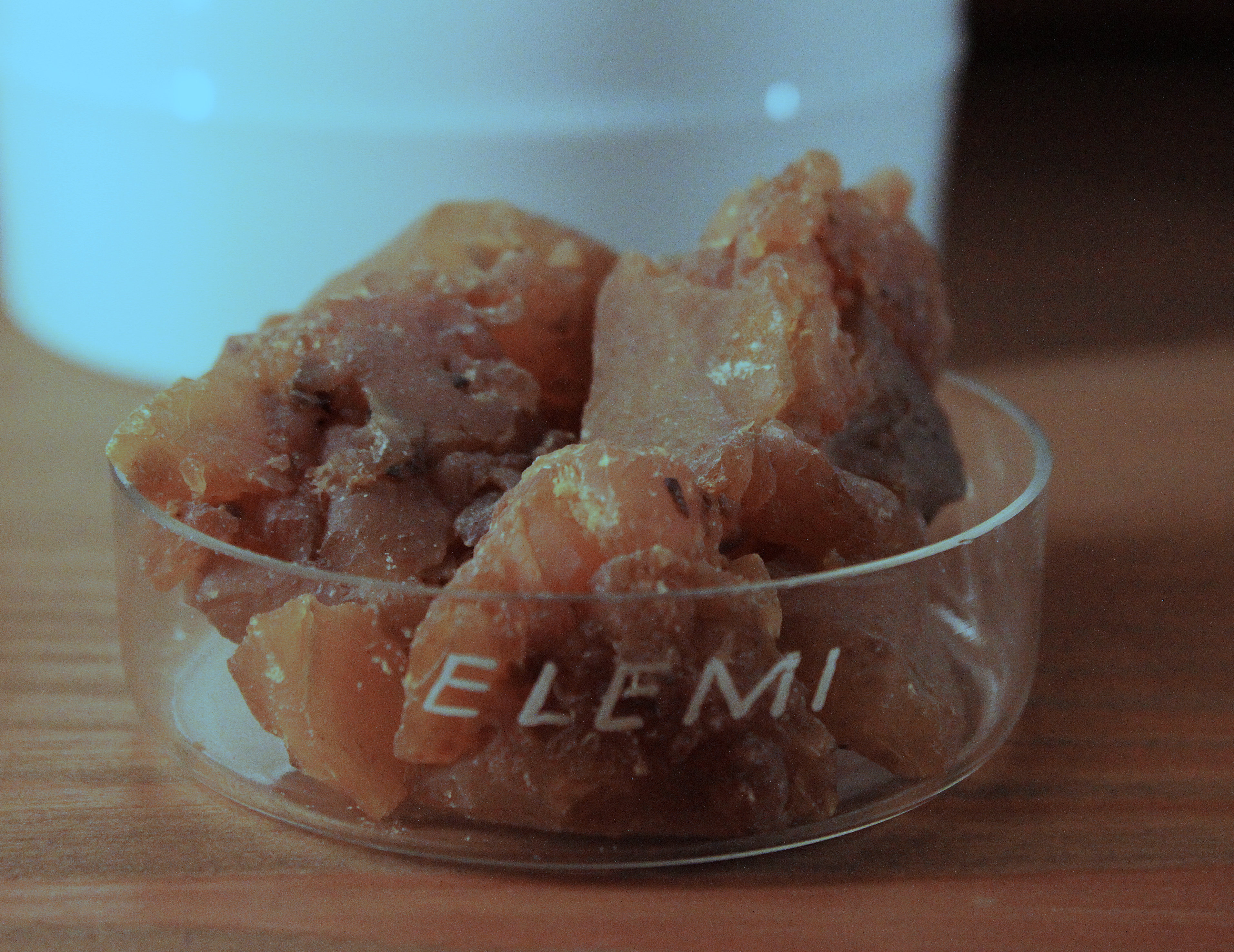 A dish of elemi, a tree resin used for medical applications. Exhibition piece of the German Pharmacy Museum in Heidelberg, Germany.